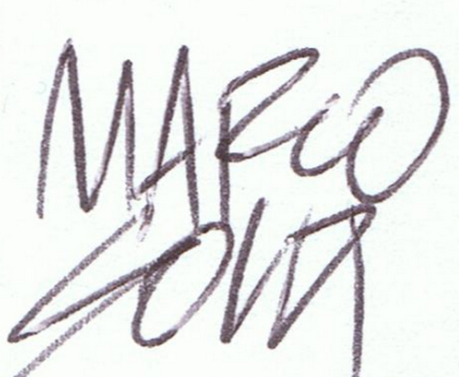 Marco Soldi signature